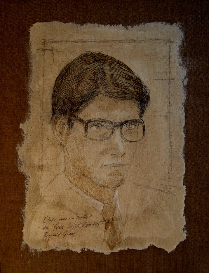 Graphite and Egg Tempera on Canvas